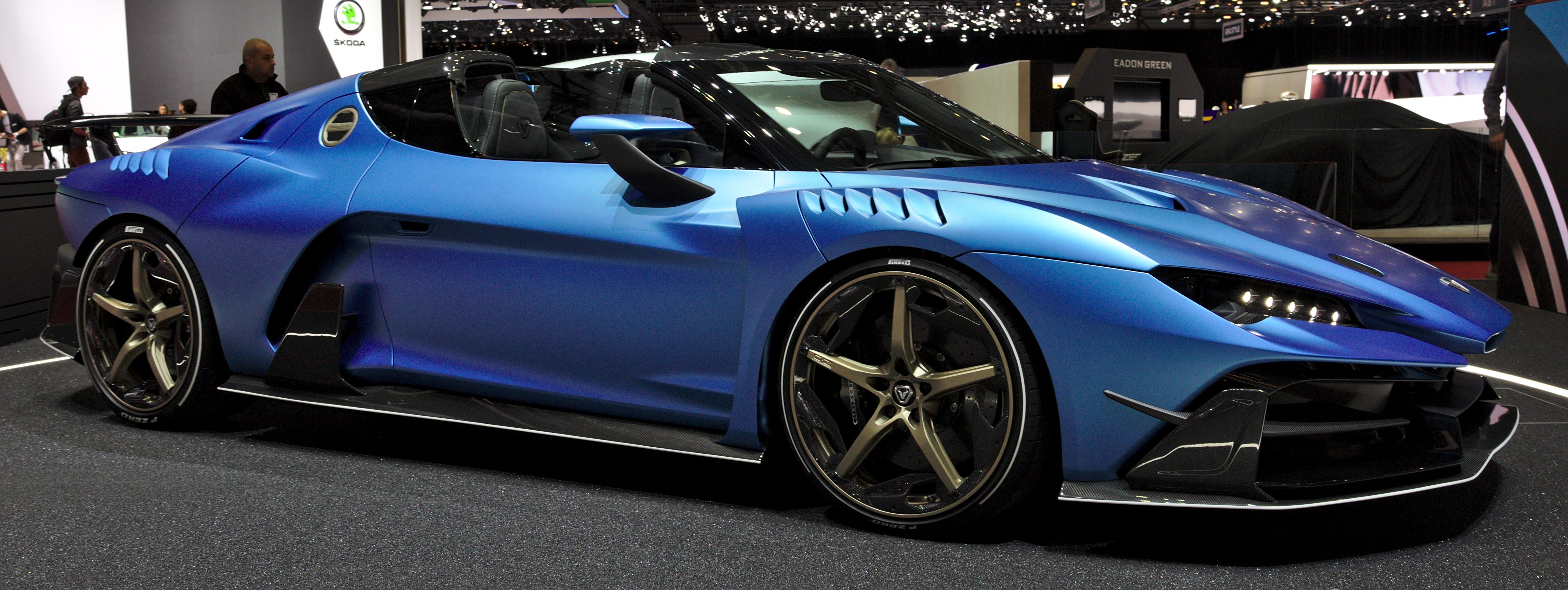 Italdesign Zerouno Duerta at Geneva Motorshow 2018